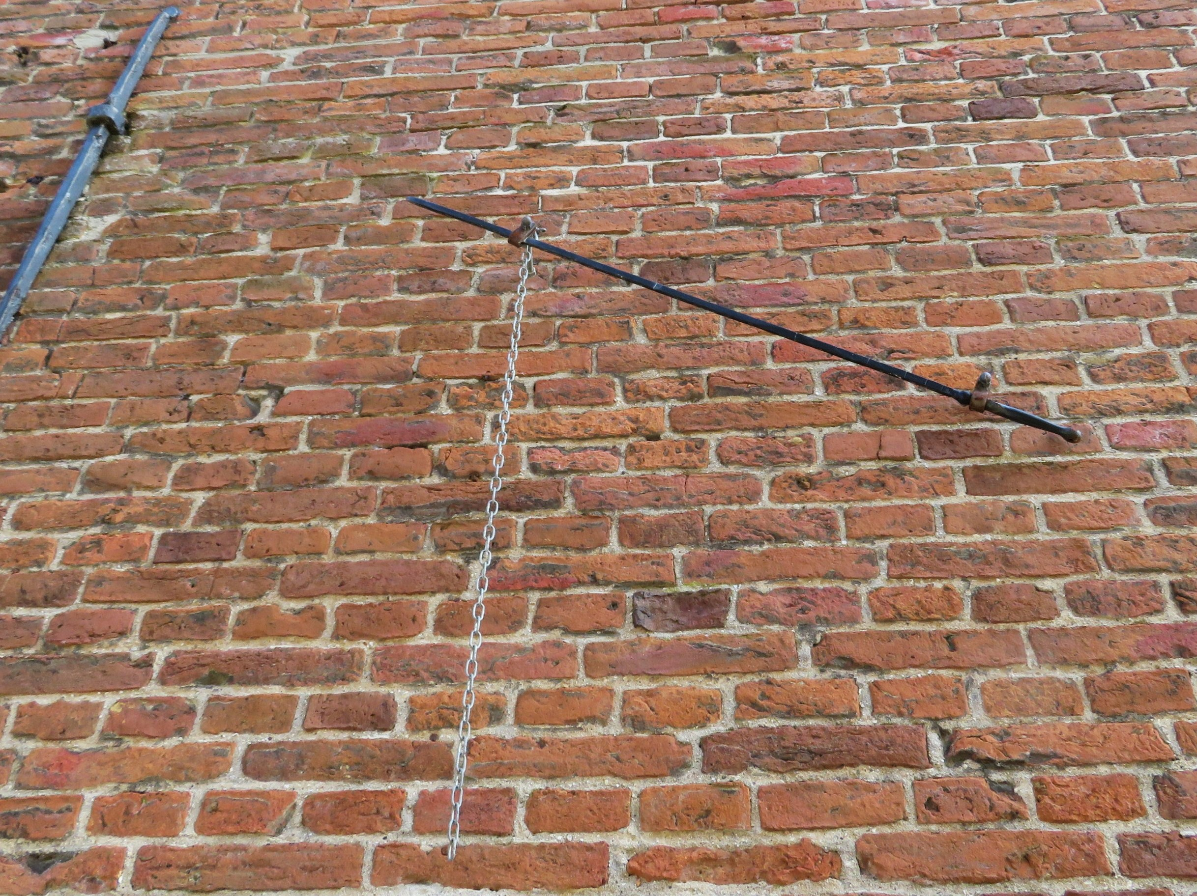 Replica of the Workumer el, a measure of length that was used between 1504 and 1775, on the wall of the town hall in Workum